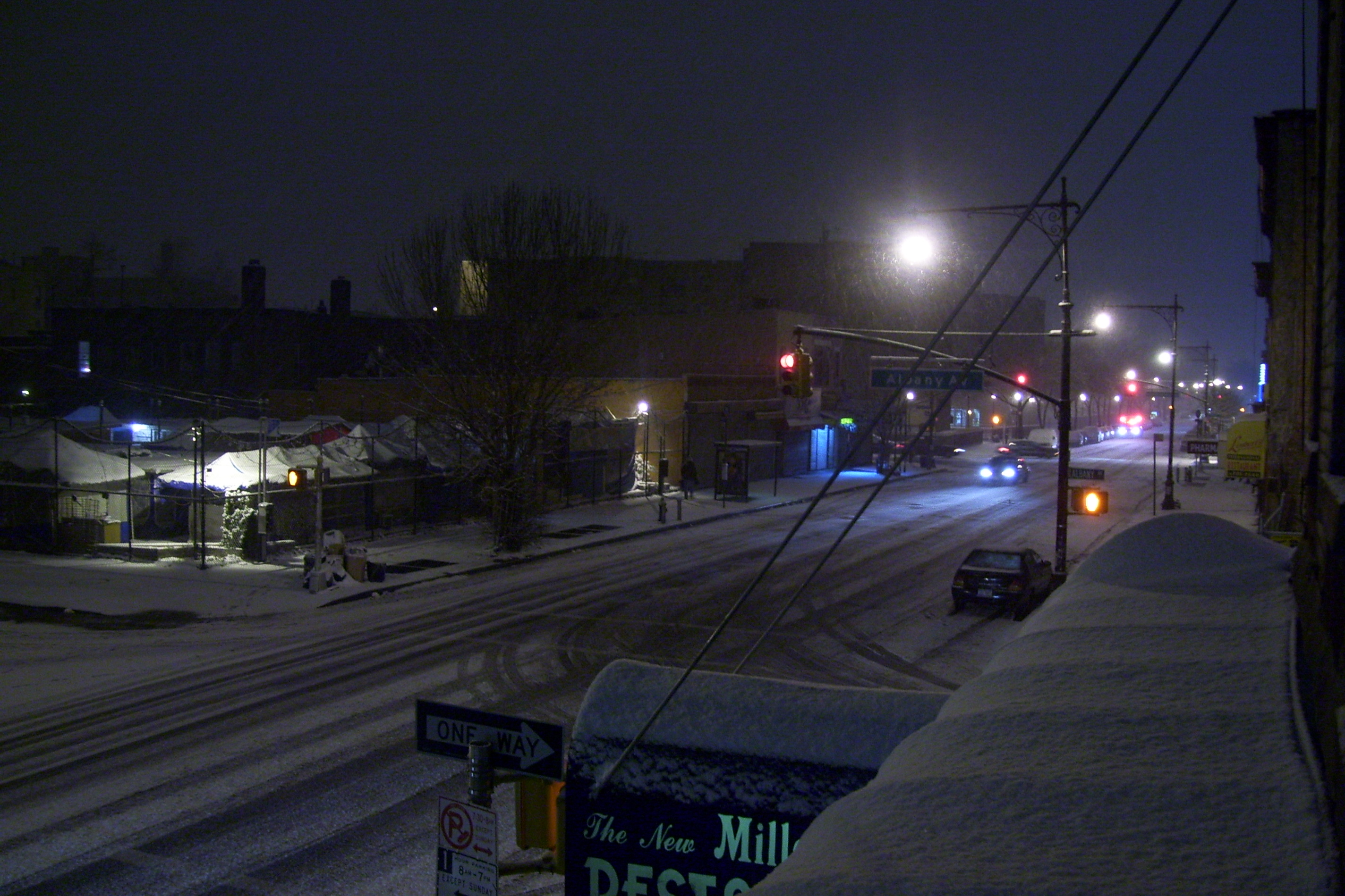 Looking east along Fulton Street at Albany Avenue, covered in snow, circa early 2007.